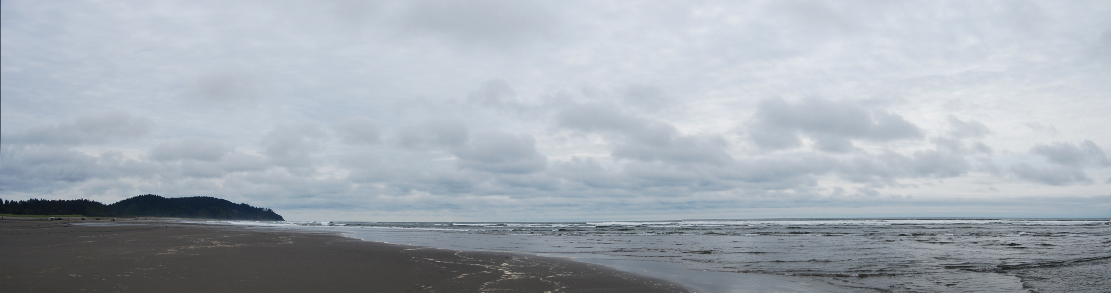 Created by: User:Fcb981